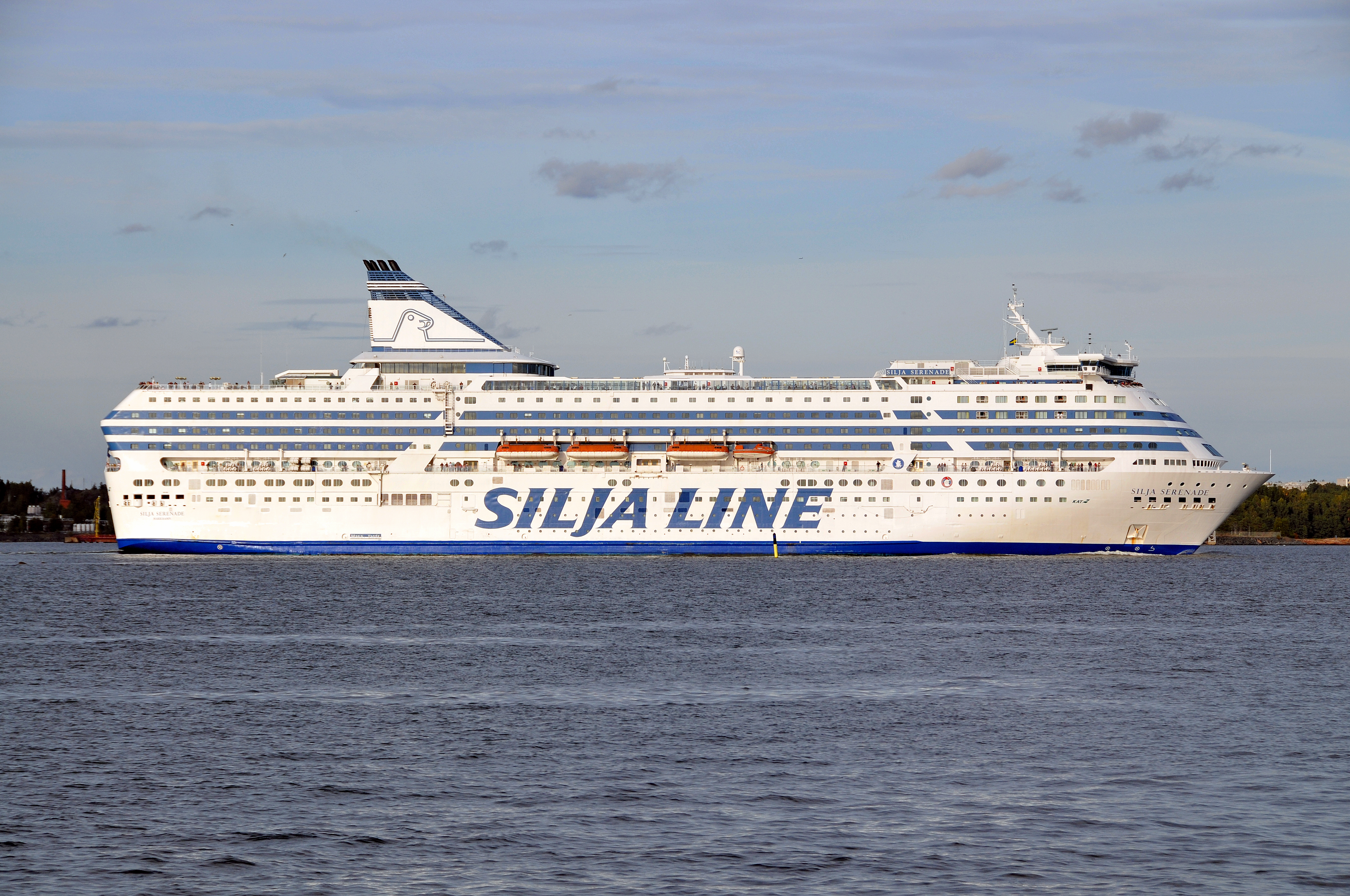 Silja Serenade in Helsinki, Finland.